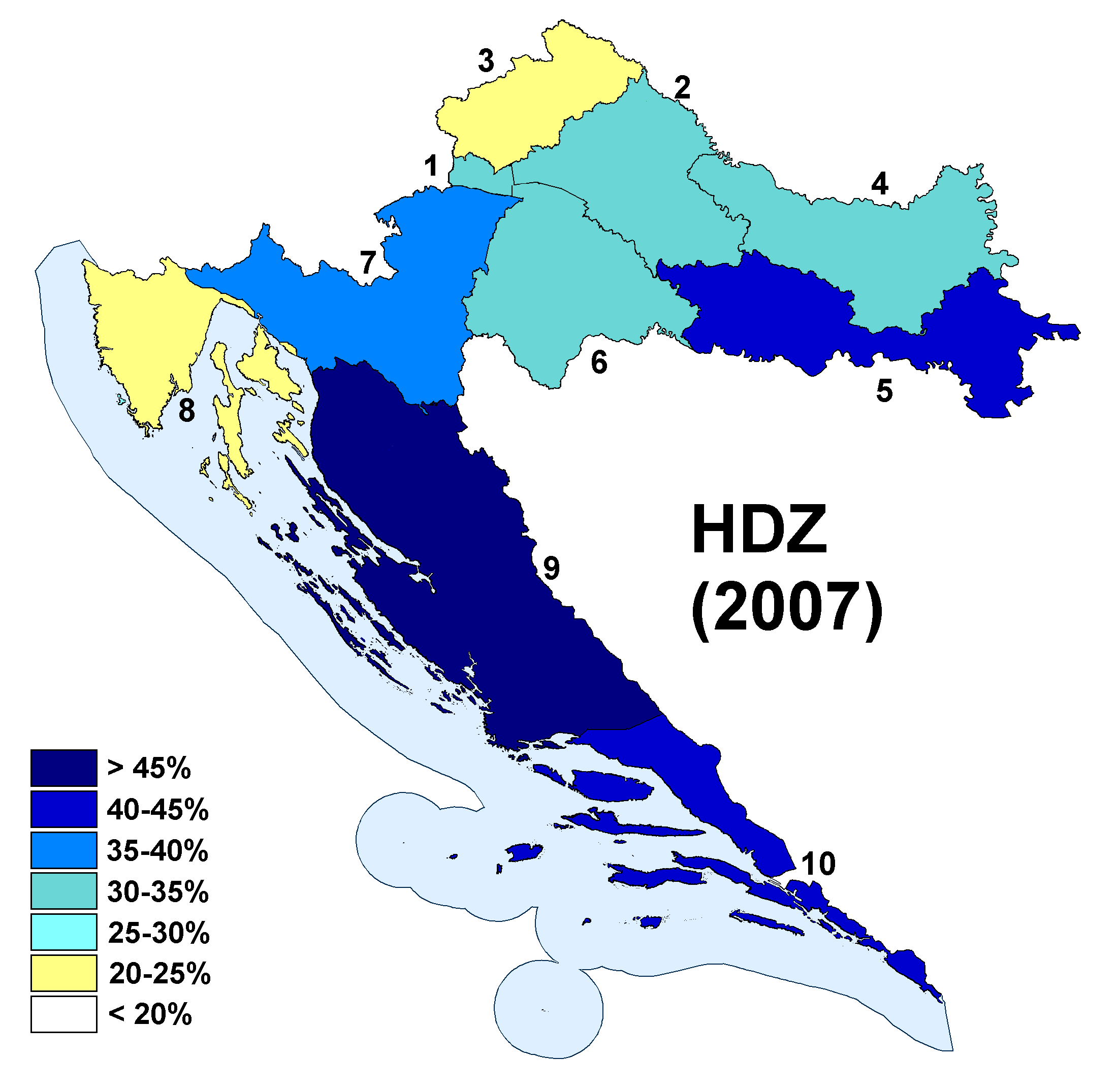 Croatia: Rezultati izbora 2007 - HDZ